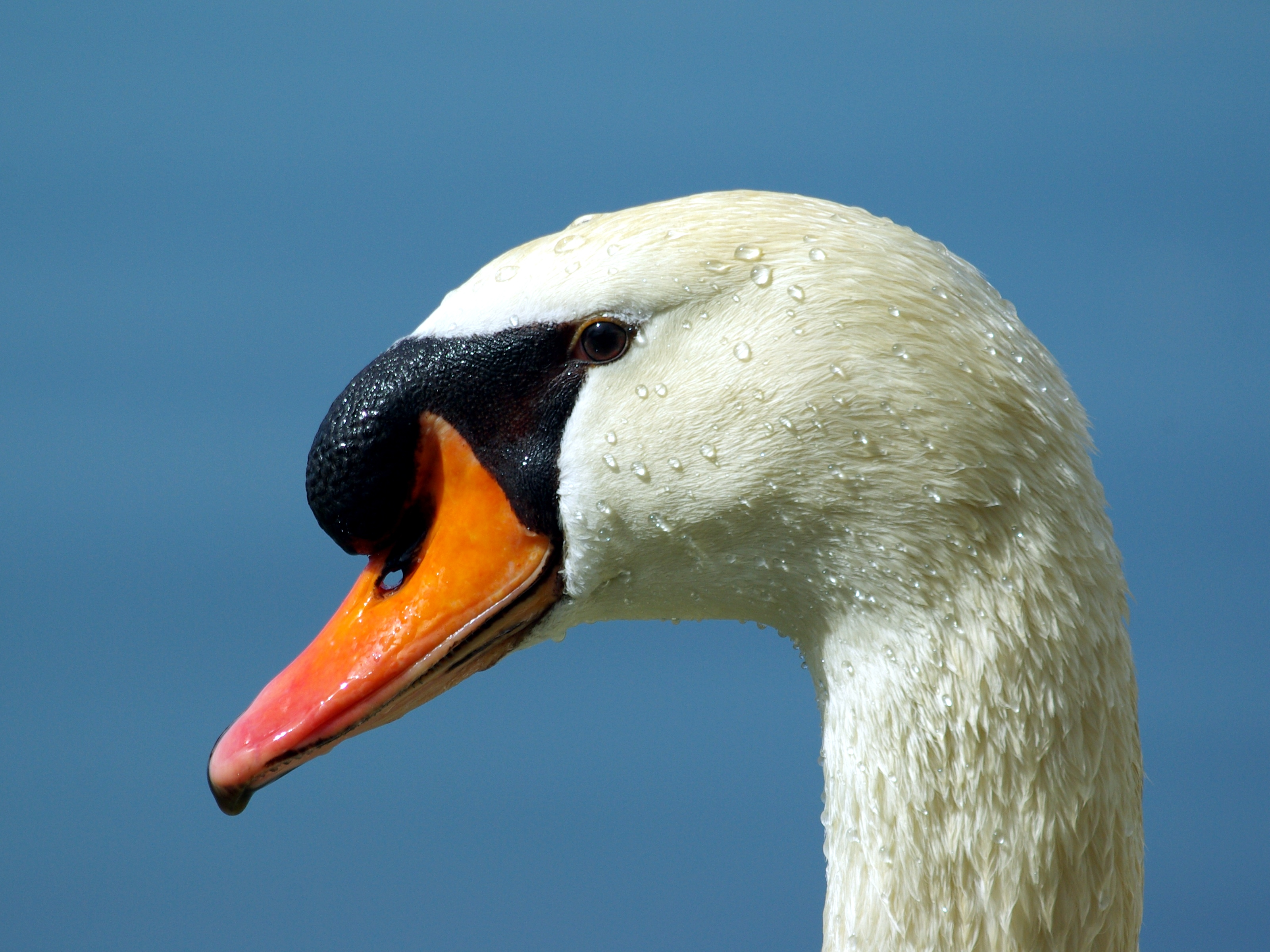 Mute Swan (Cygnus olor) on the Danube River at Säusenstein, Austria.